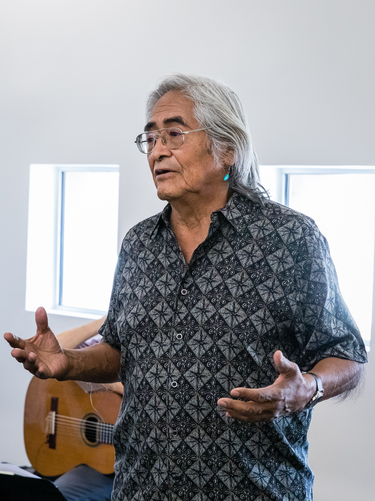 Retiring Regents’ Professor, Simon Ortiz The Department of English at ASU hosted this spring semester social event and celebration of recent and soon-to-be retirees: Daniel Brendza, Paul Cook, Cynthia Hogue, Simon Ortiz, Angelita Reyes, and Laura Tohe. Music at the event by Diego Alec Miranda (classical guitar). ASU Tempe campus Apr. 19, 2018